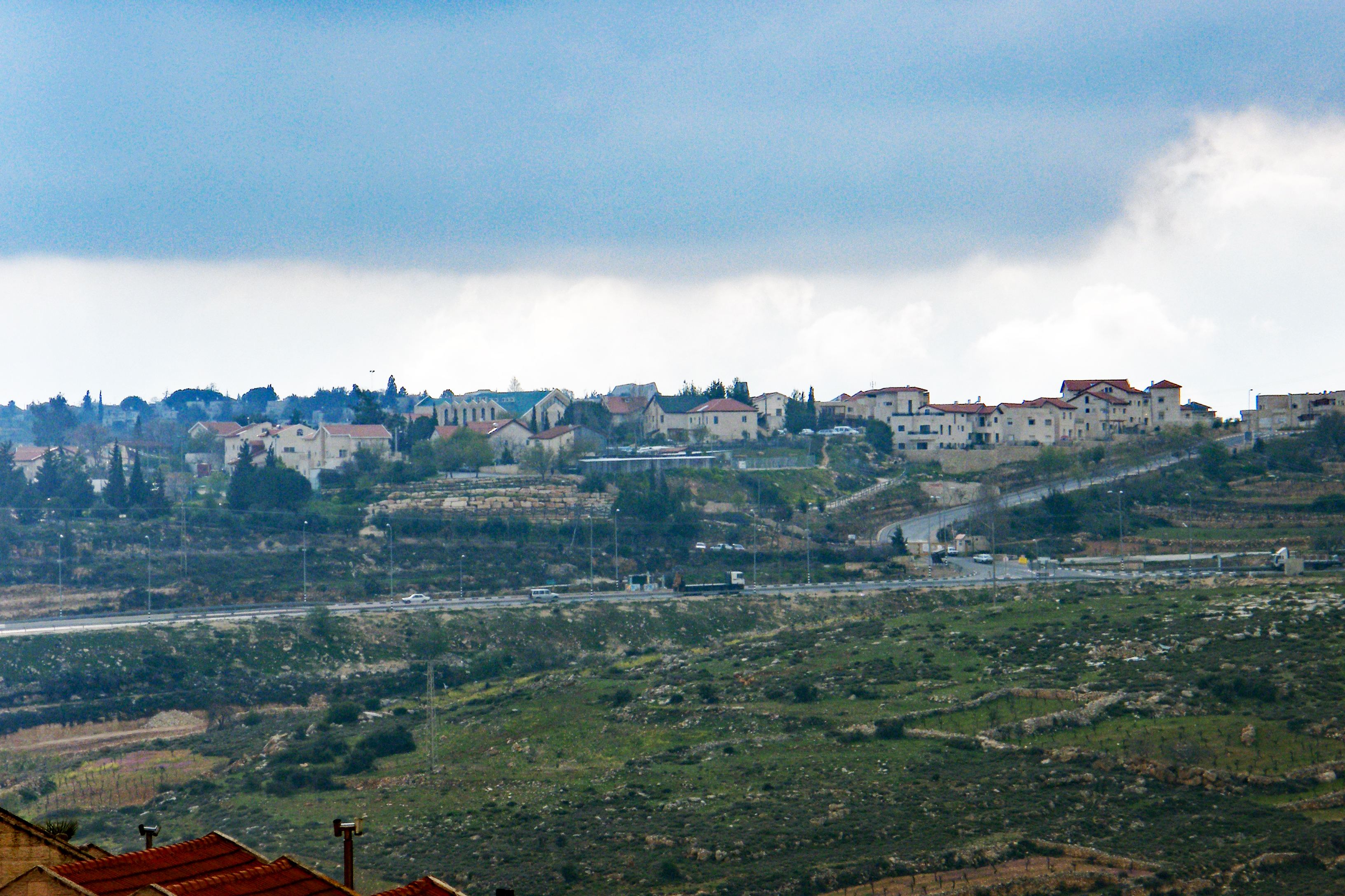 Settlement of Elazar, Gush Etzion Judean Hills region of the West Bank, 18 kilometers south of Jerusalem.